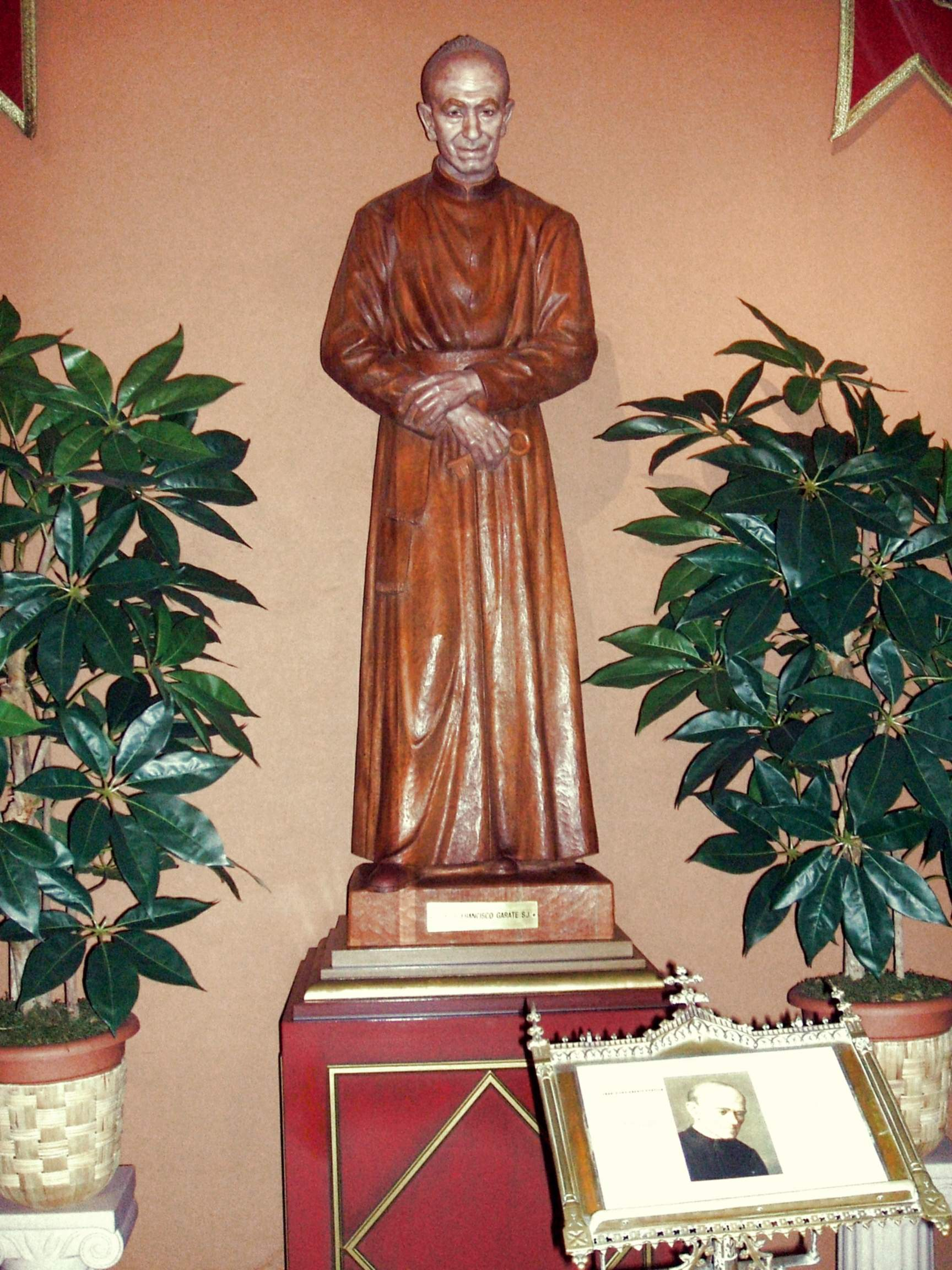 Estatua del Beato Francisco Gárate (1857-1929), en la Iglesia del Sagrado Corazón, Bilbao (País Vasco, España)